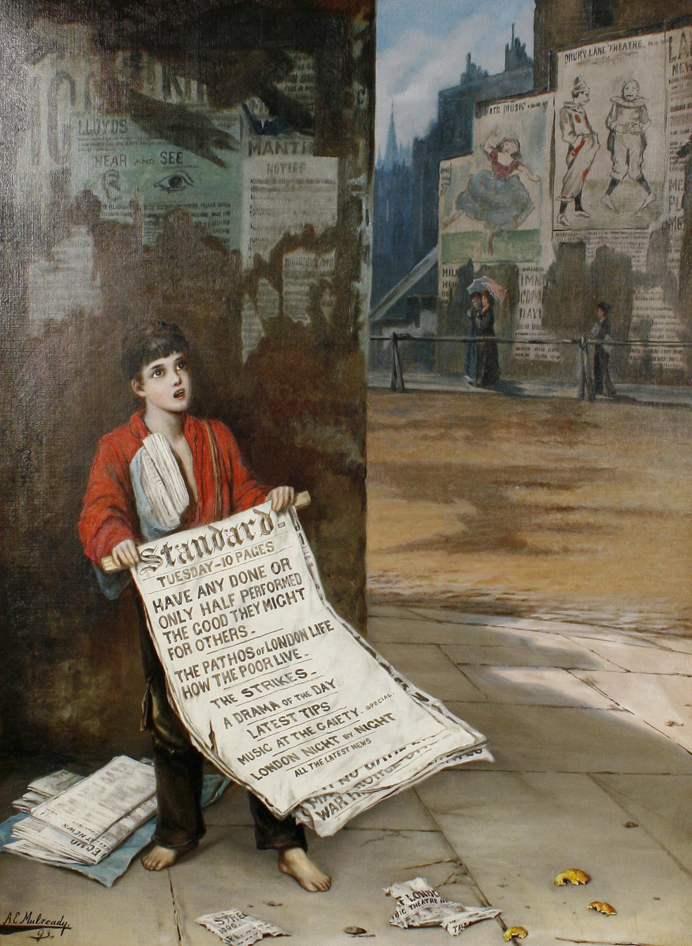 A London news boy